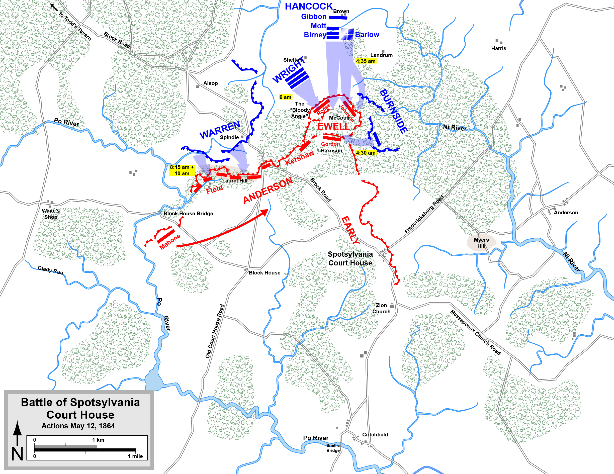 One of a series of seven maps depicting the Battle of Spotsylvania Court House of the American Civil War. Drawn by Hal Jespersen in Adobe Illustrator CS5. Graphic source file is available at Attribution: Map by Hal Jespersen